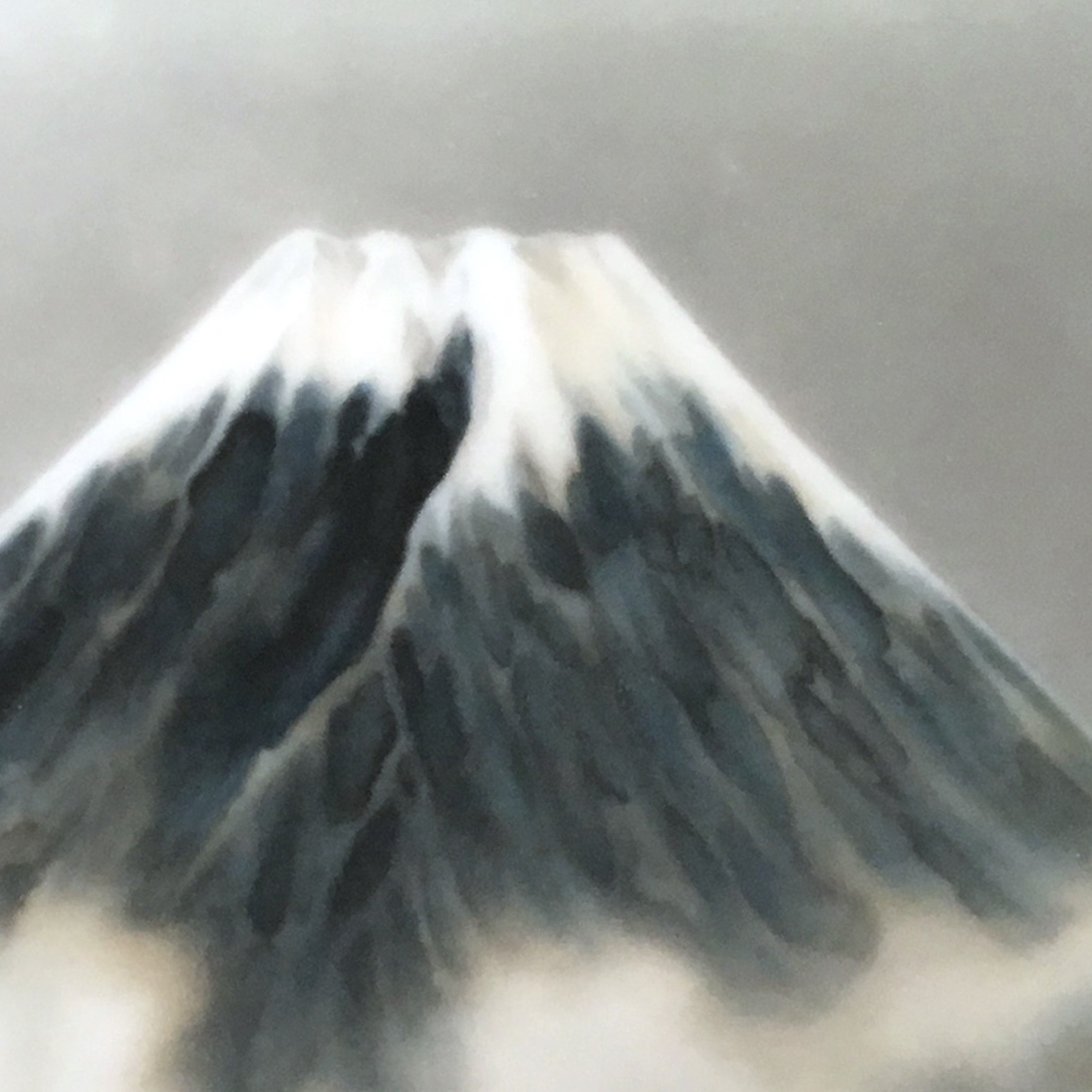 Japanese transparent enamel type musen shippō (無線七宝). Picture of Mount Fuji, Heisei era 15, made by Ando Cloisonné Co., Ltd. Ando Cloisonné Museum, Nagoya.